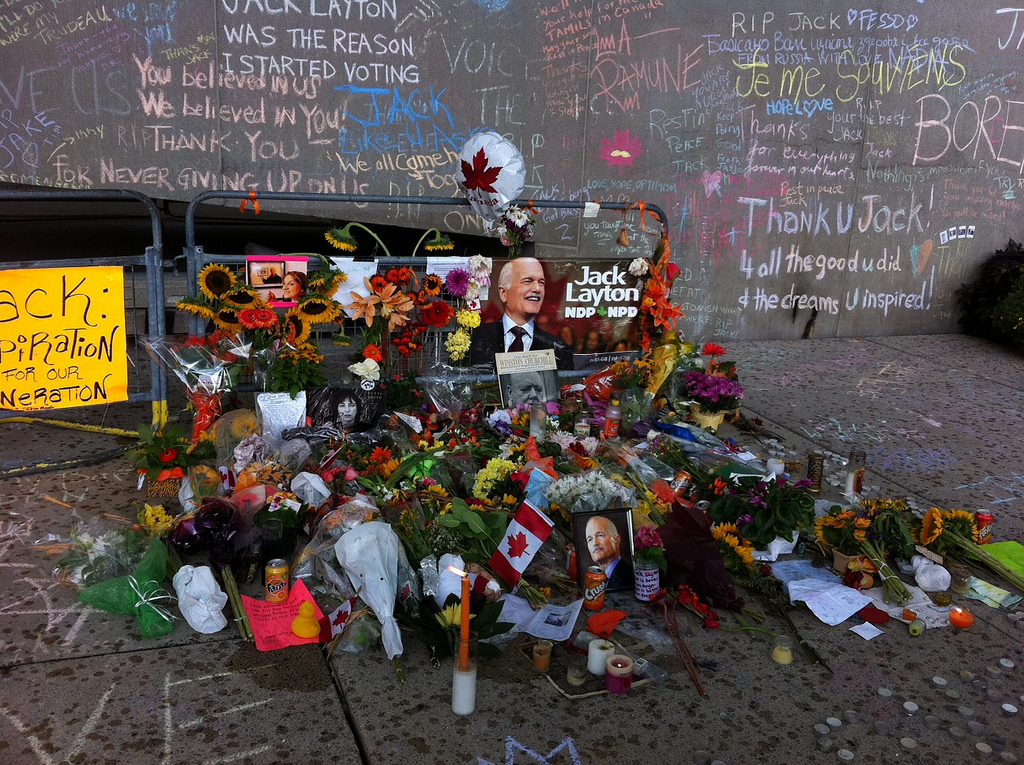 Remembering Jack Layton's contribution to politics